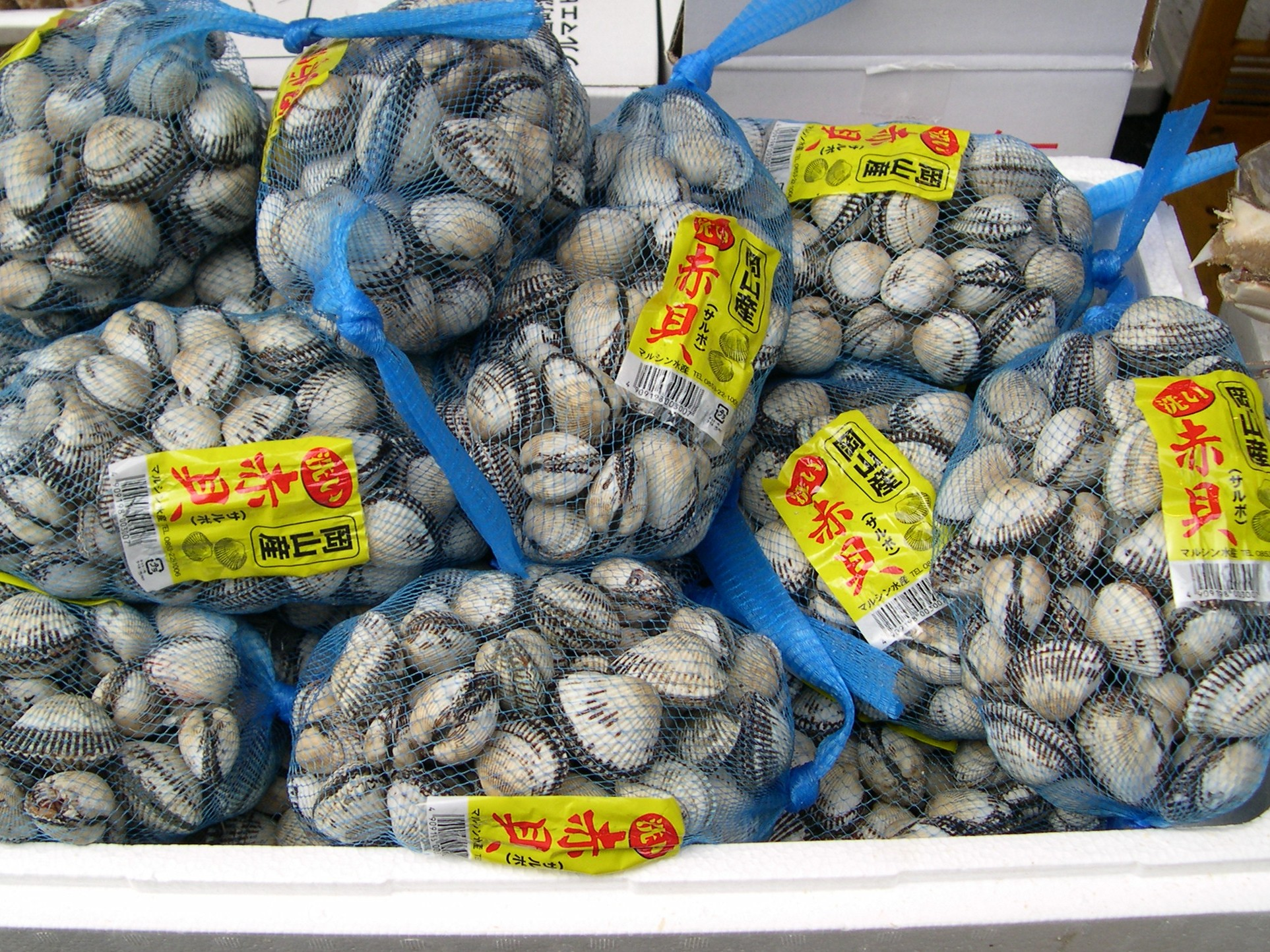 サルボウ Anadara (Scapharca) subcrenata (Lischke, 1869) (Arcidae) from Okayama Prefecture for sale at a fishmarket in Tokyo, Japan.